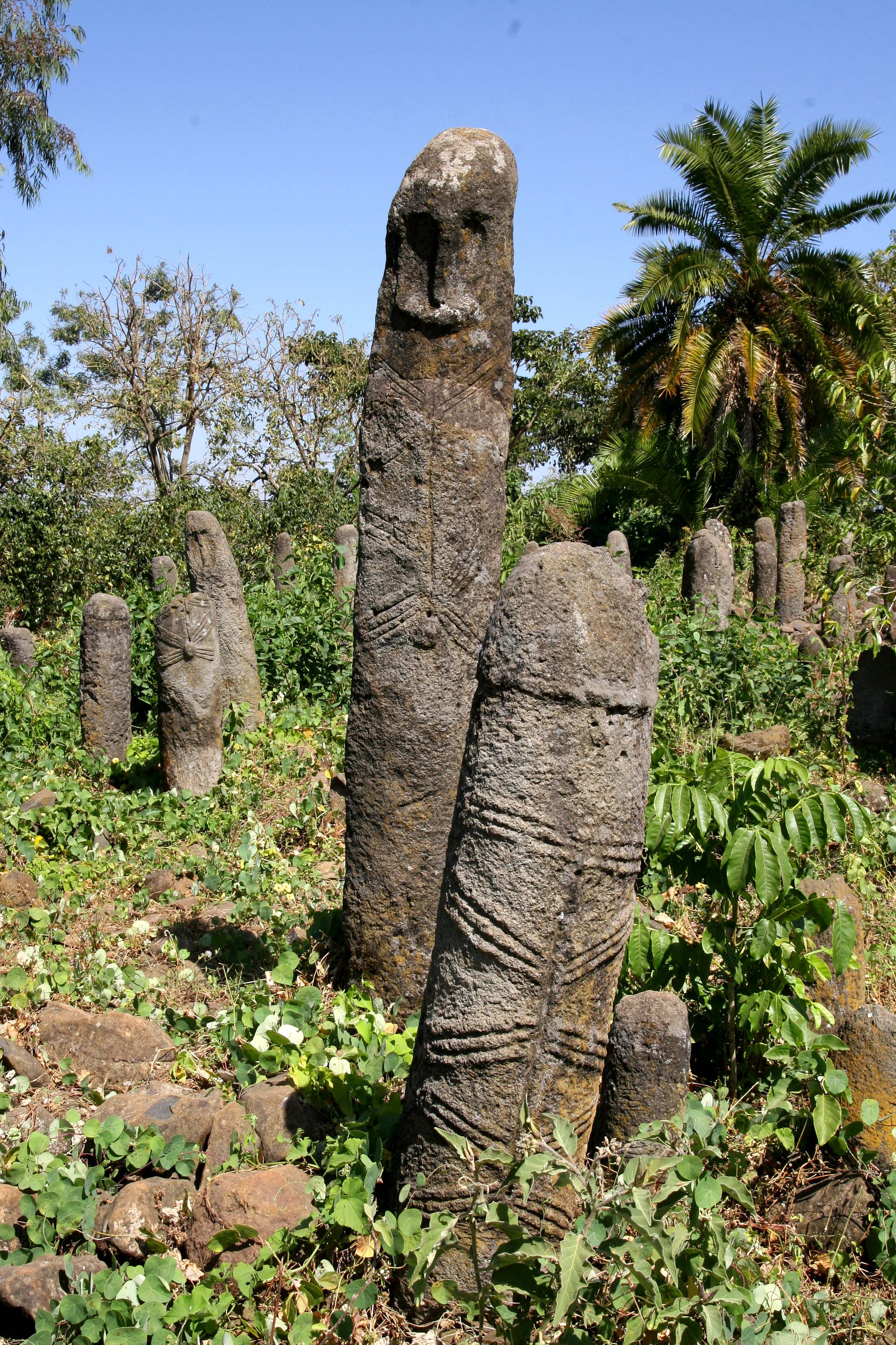 Tutu Fela Stelae tumulus in Ethiopia